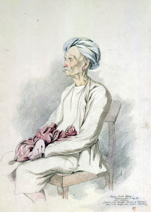 Watercolour with pen and ink of a portrait of Moung Shwe Moung. An Albino, age 70. The father of this man...was a Mohummudan [Muslim], a native of India; his mother, a Burmese.